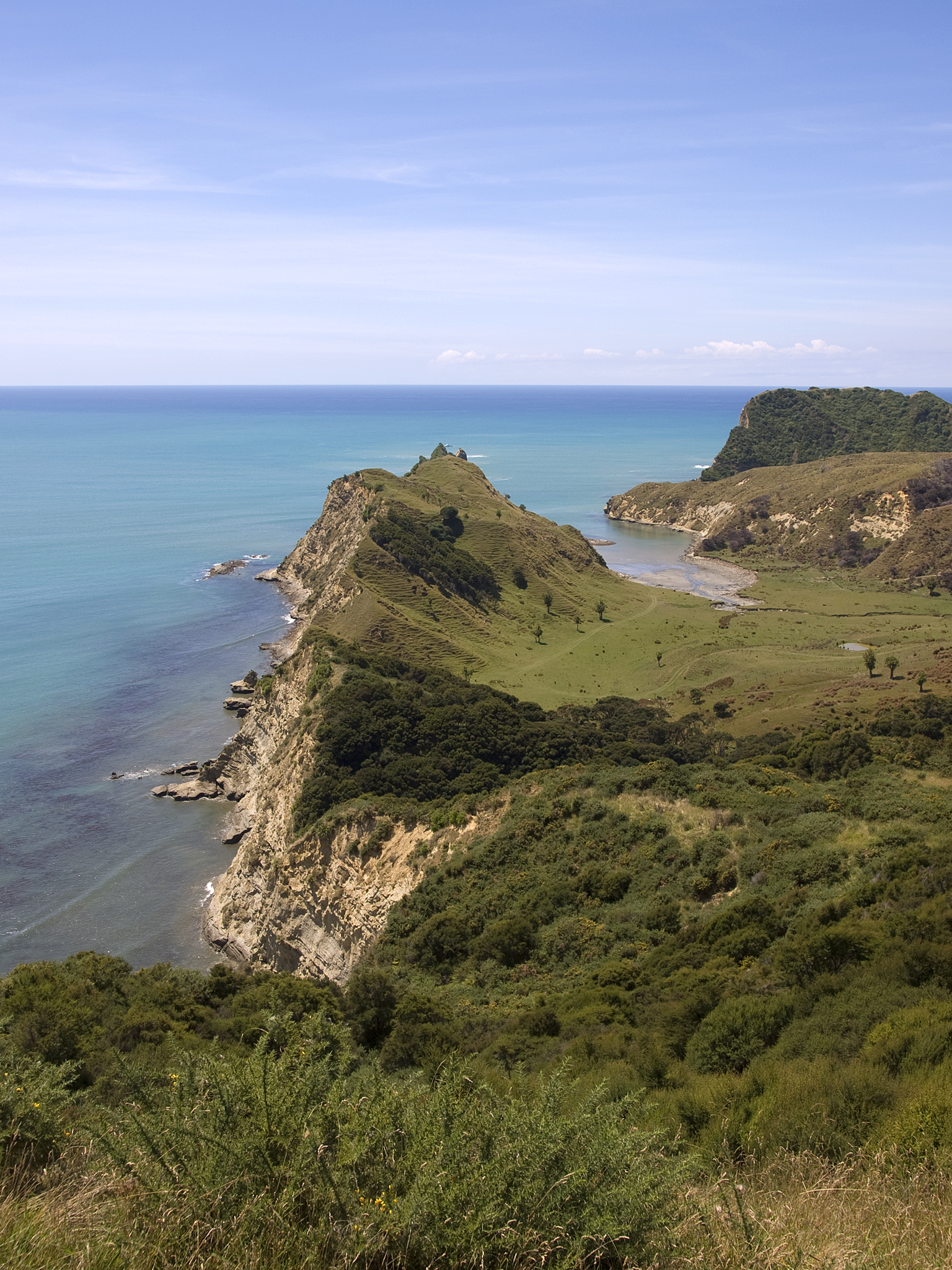 Cook's Cove, Tolaga Bay, Gisborne Region, New Zealand